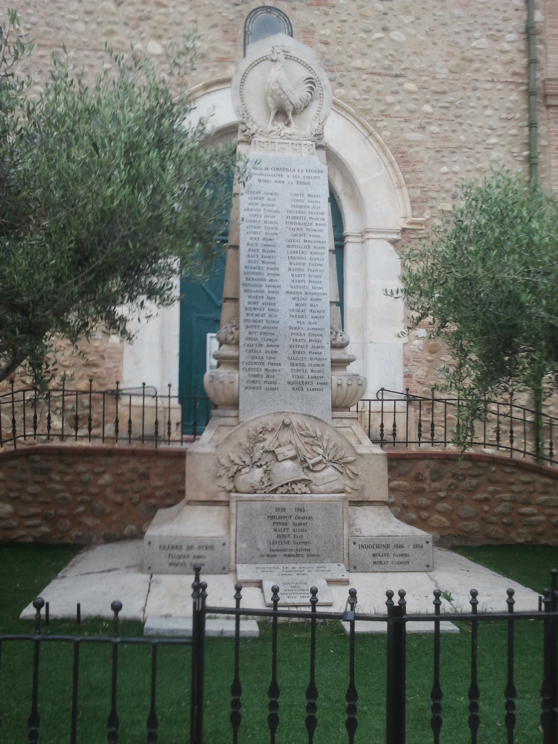 War memorial in Corneilla-la-Rivière